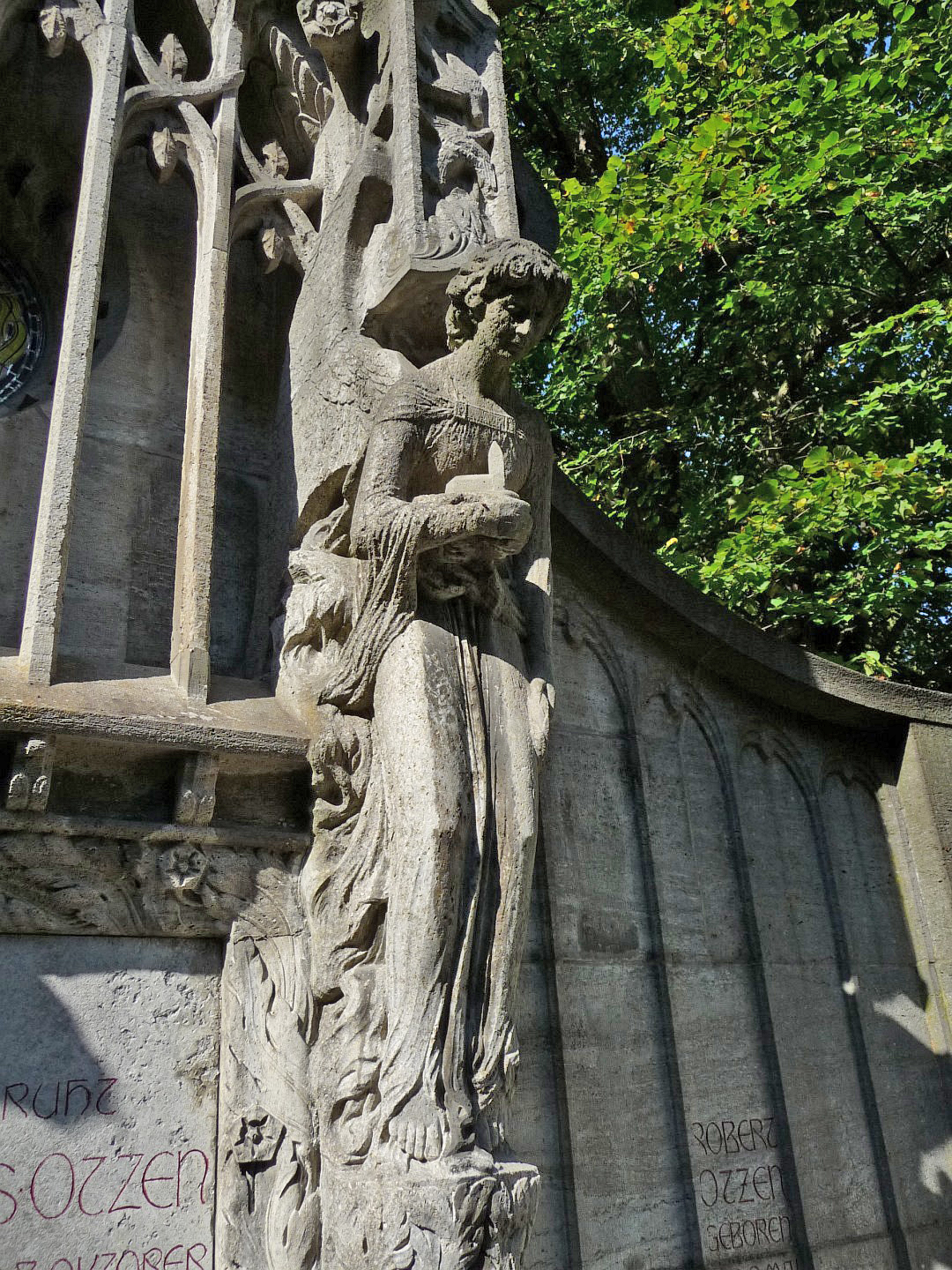 Cemetery Berlin Wannsee, tomb of Johannes Otzen